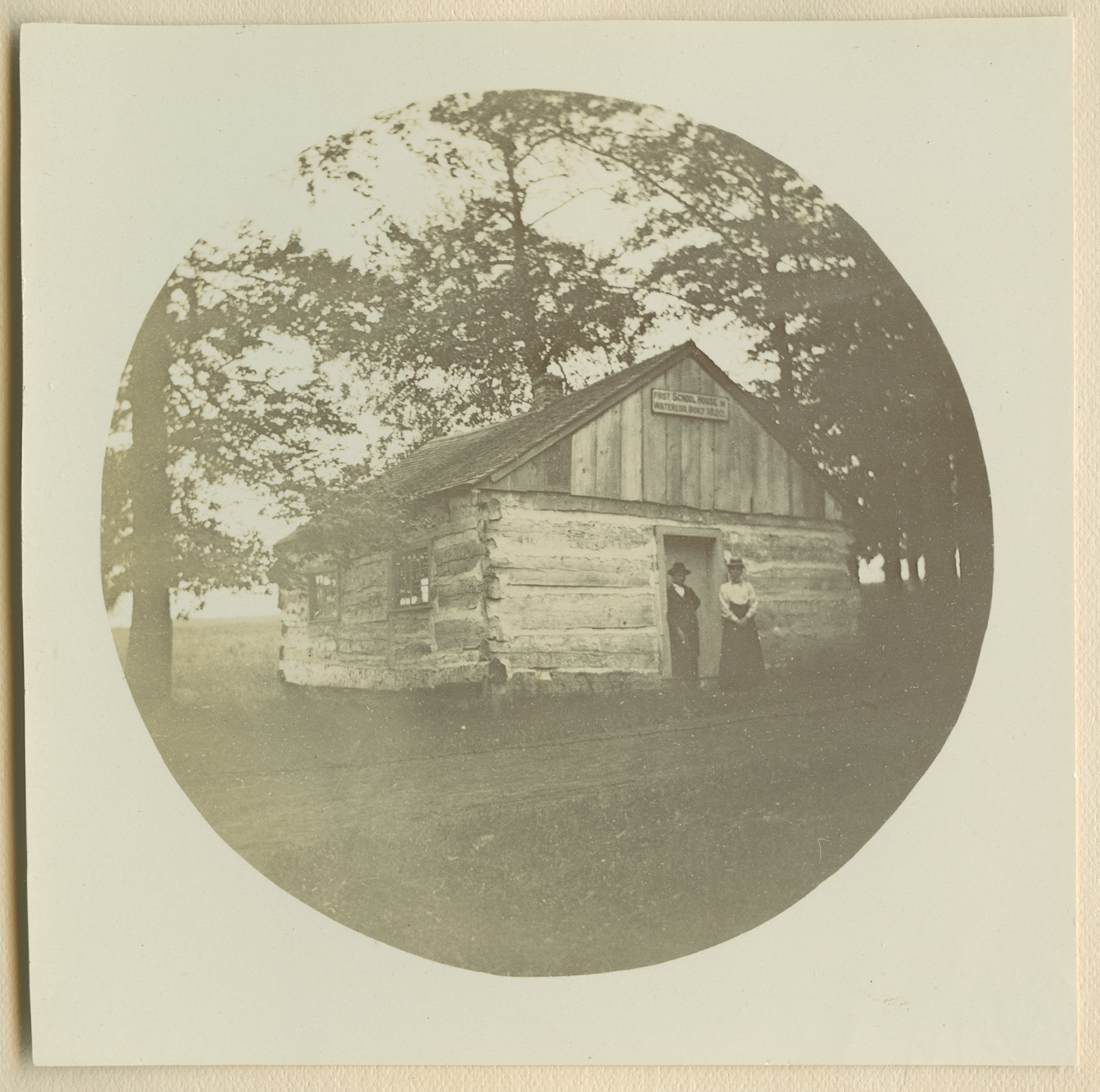 Photograph on page of travel album taken by Abraham Moyer Nash of his niece and nephew standing outside of a log cabin school house built in 1820 in Waterloo, Ontario.